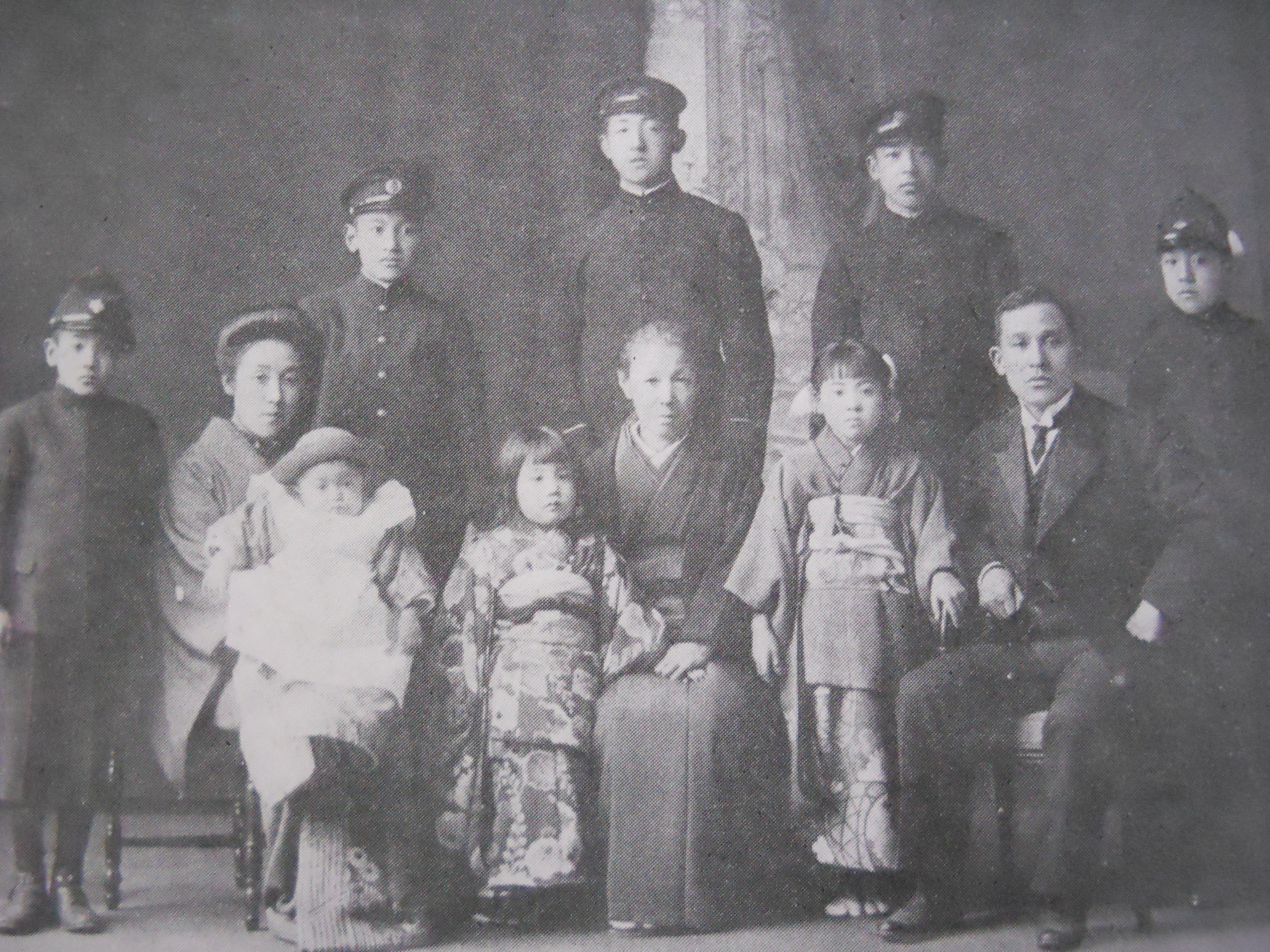 Syouda Family